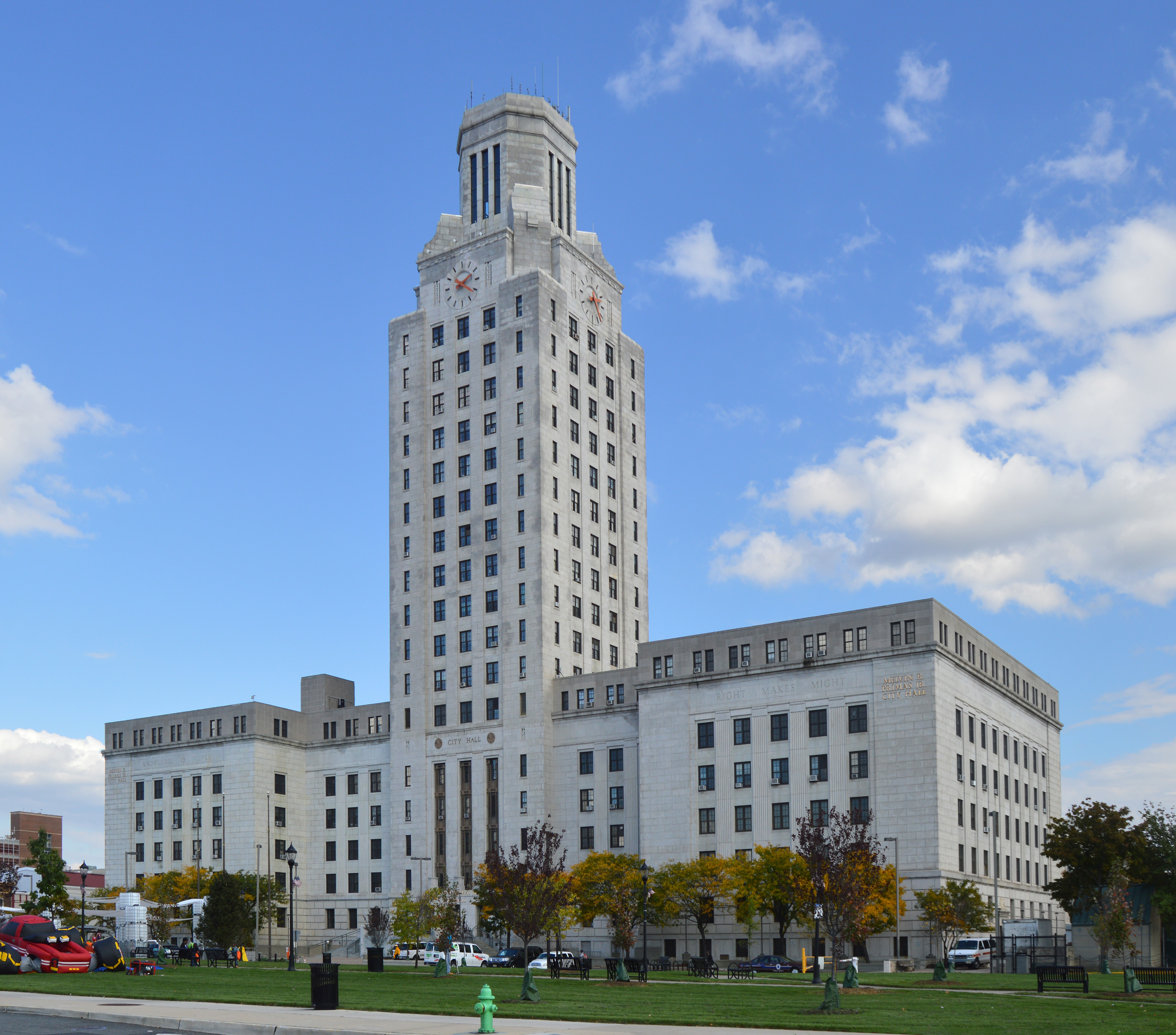 Comprehensive view of City Hall in Camden, New Jersey, United States, seen looking east from the junction of Fifth and Arch Streets. It was built in 1931.